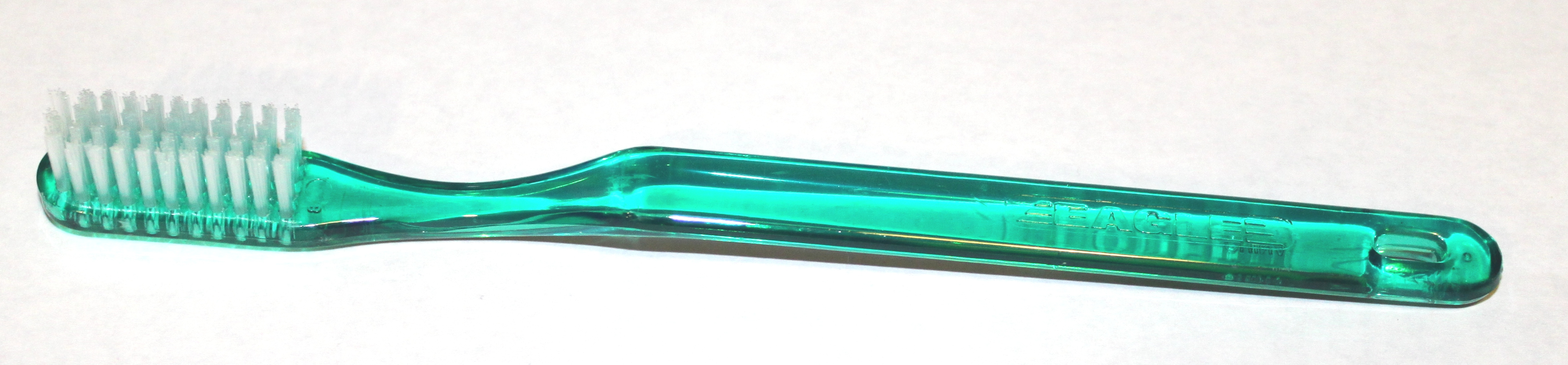 A green toothbrush.